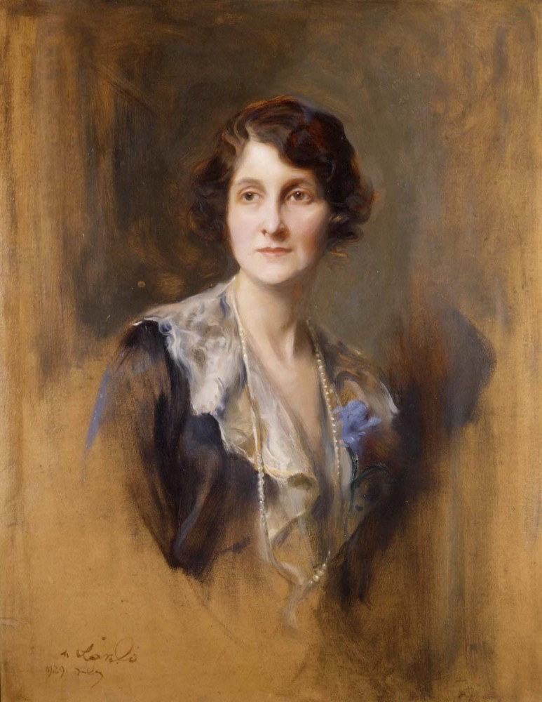 Lady Elphinstone wife of 16th Baron, née Lady Mary Frances Bowes Lyon